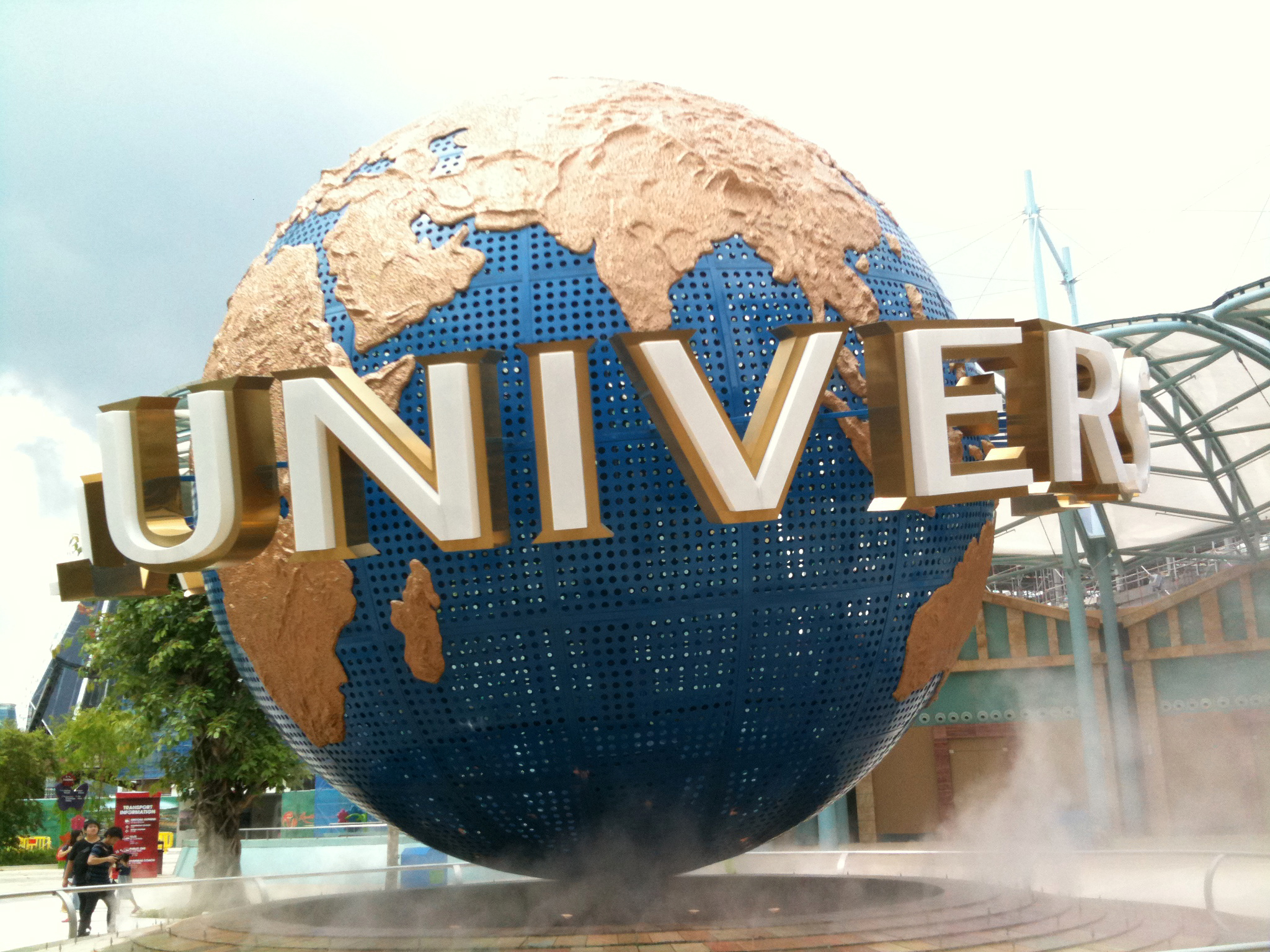 The Universal Studios globe outside Universal Studios Singapore